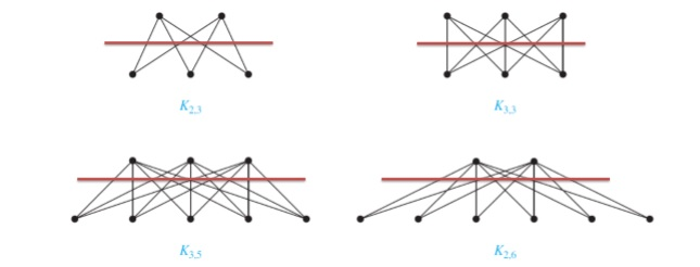 نمایی از گراف های دو بخشی کامل